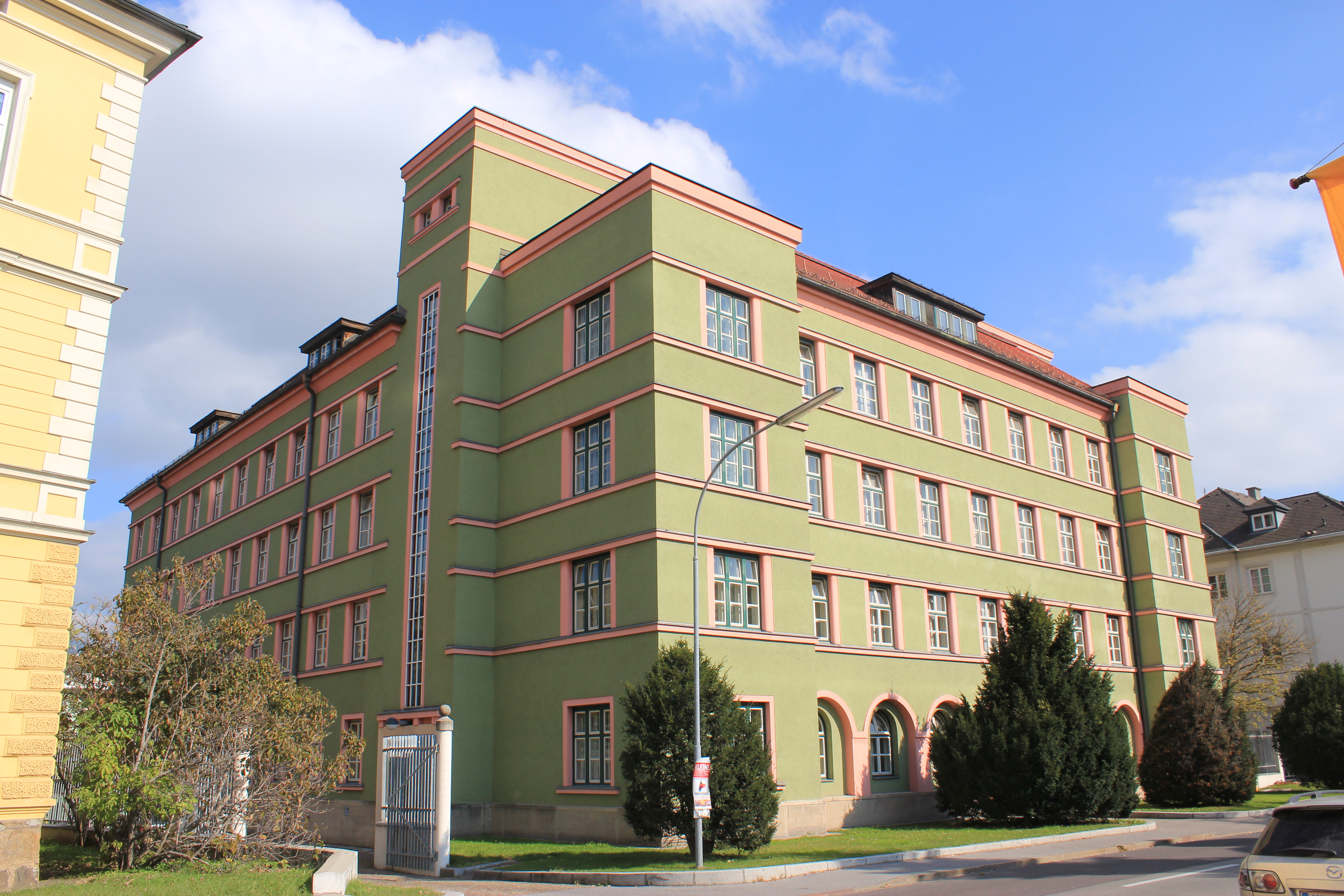 District court in Villach